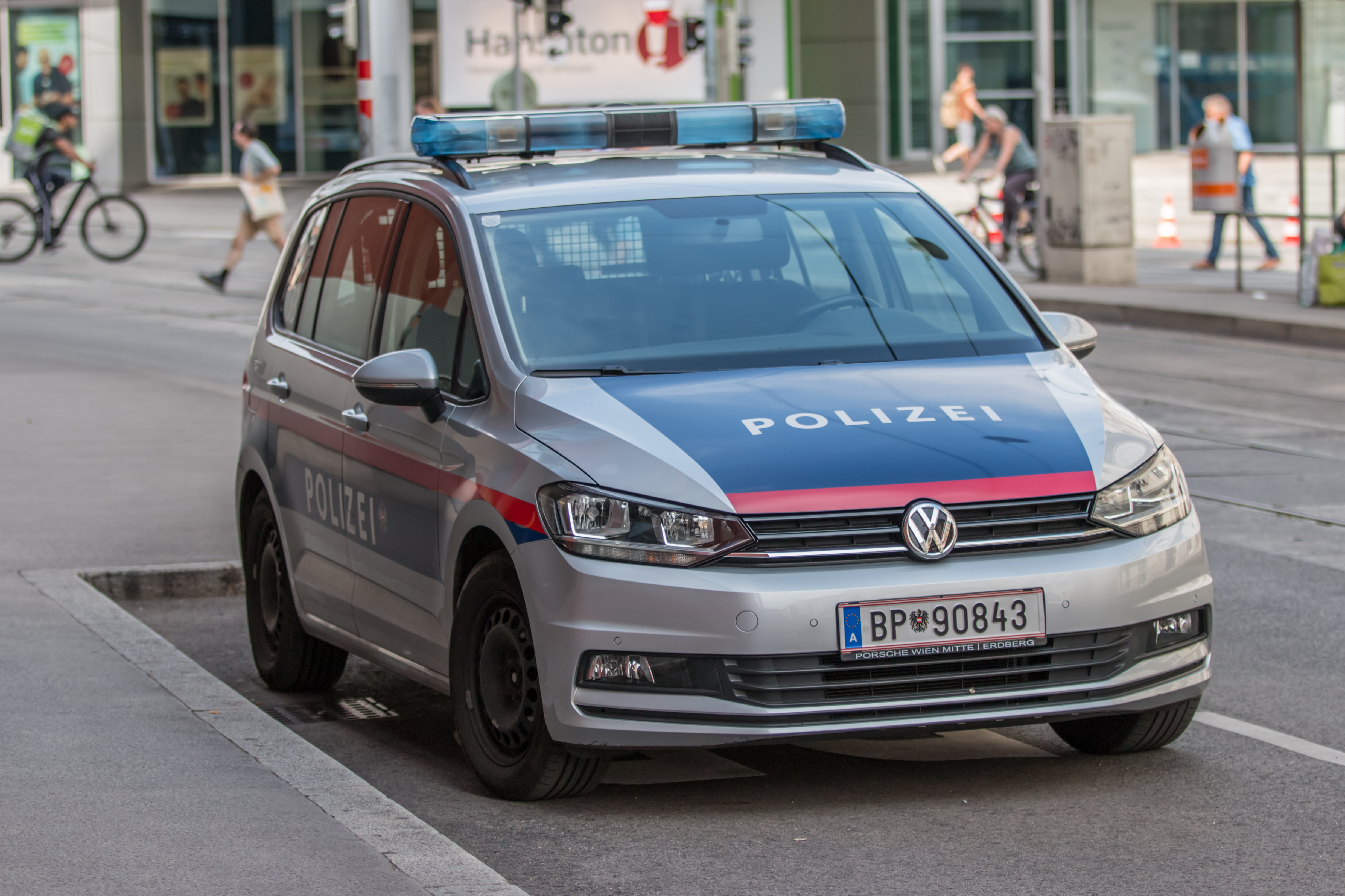 Austrian Federal police VW Touran II